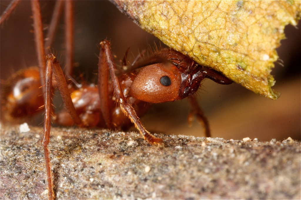 A Hondurian leaf-cutter ant, caught on film in the jungle close to La Ceiba.